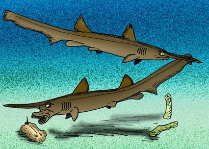 Cropped image of taxon in file name